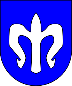 Coat of Arms of Myhl